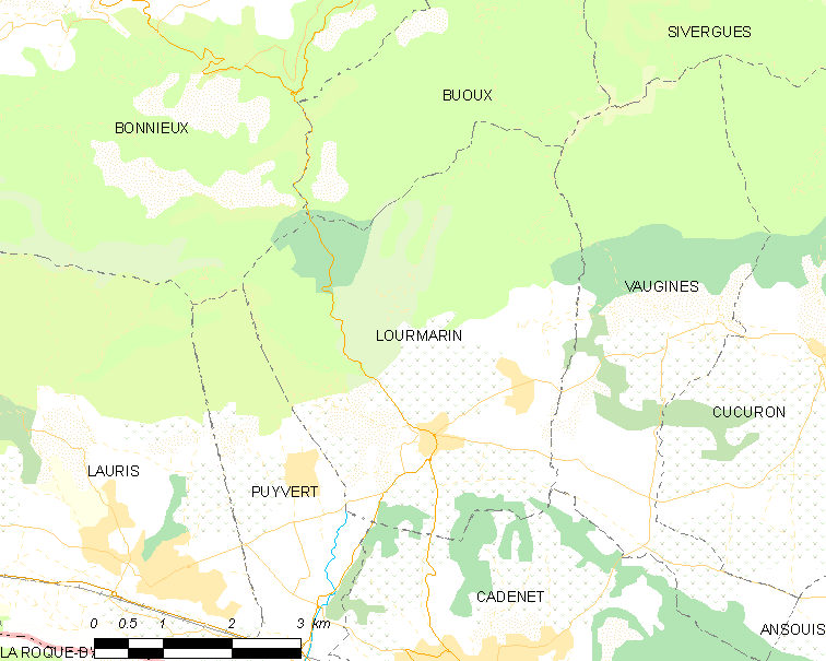 Map of French municipality Lourmarin